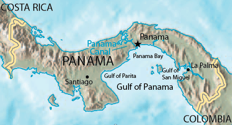 Gulf of Panama, converted from CIA World Factbook PDF map, with data added (Gulf of Panama etc.).